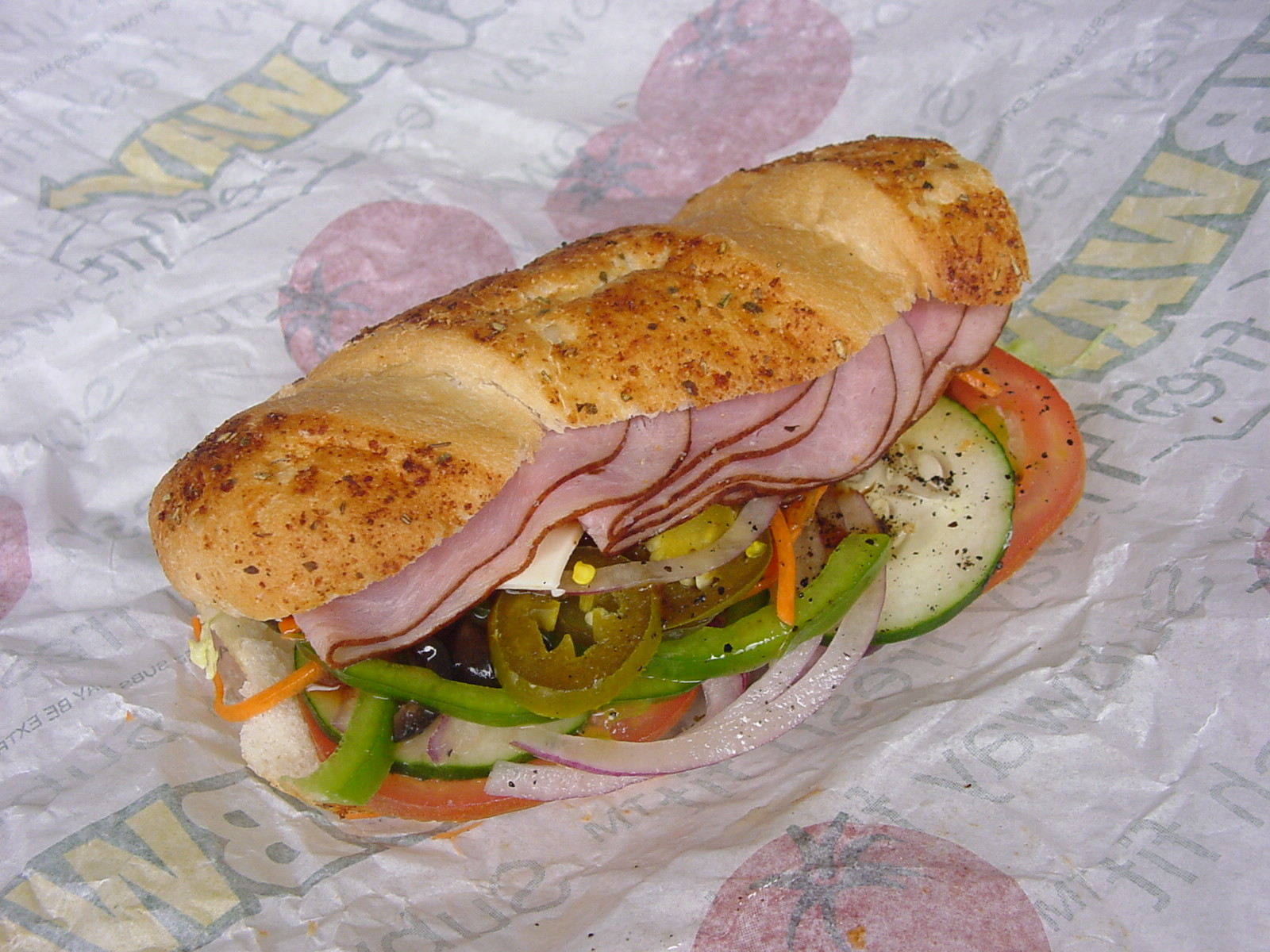 12-inch ham Submarine sandwich with double meat by Subway